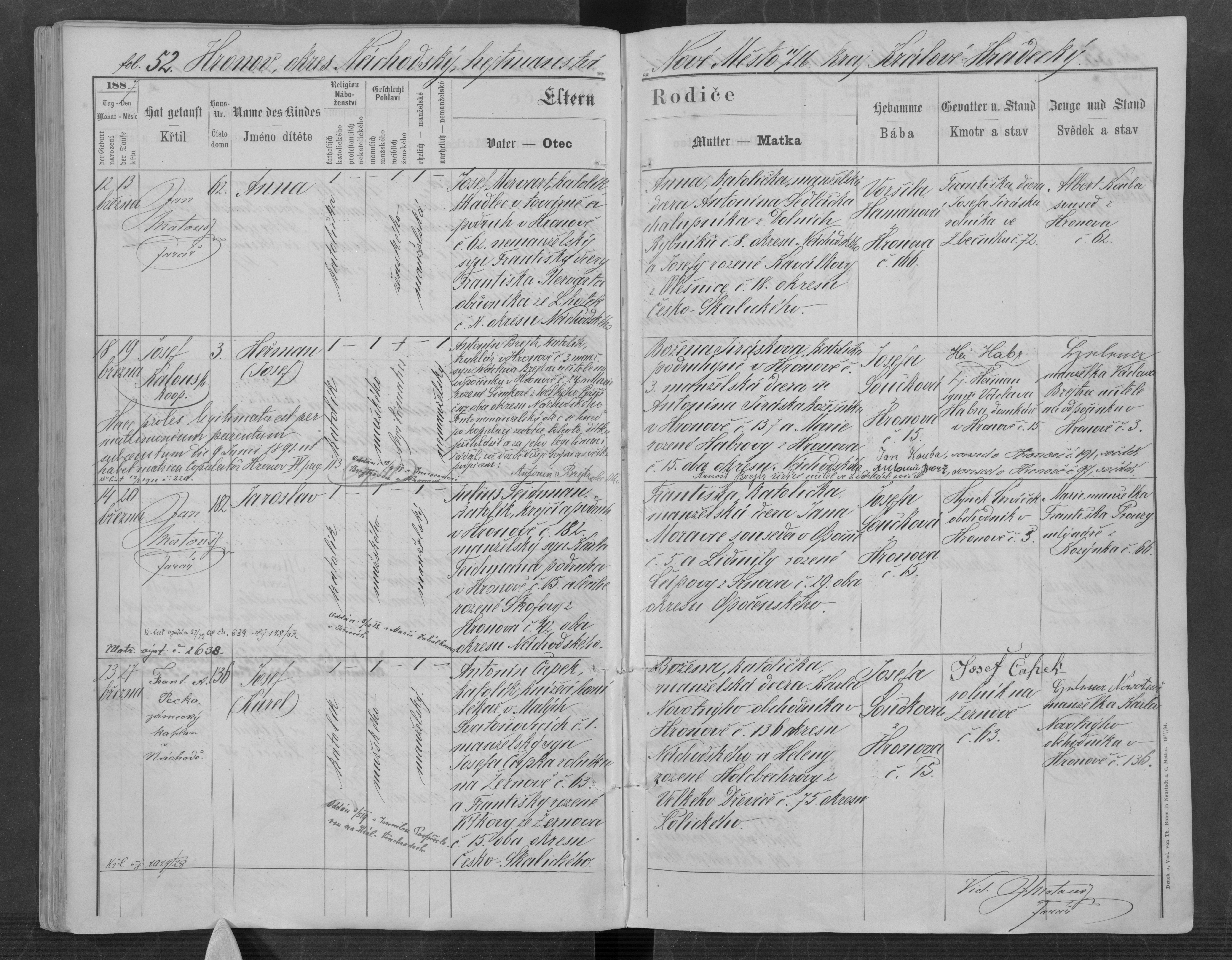 Page 52 from a register of births at a Roman Catholic Parish of Hronov, Czech Republic, covering a part of March 1887. The last entry on the page records the birth of Josef Čapek.